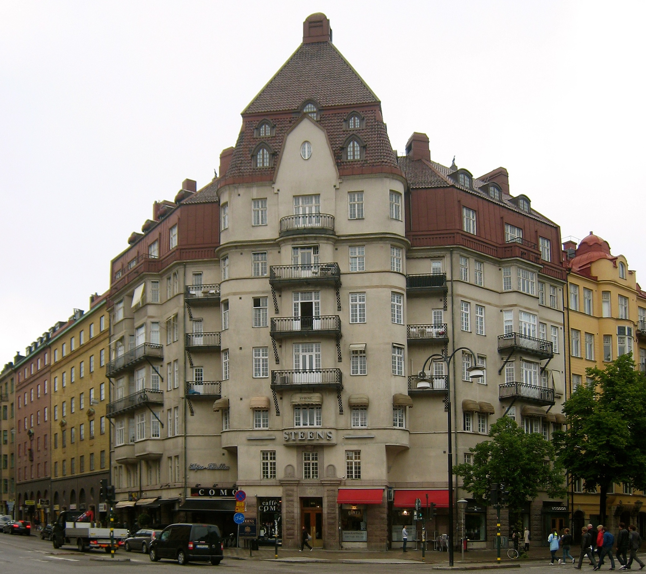 Odengatan 106 (Liljan 32). Built 1910-1911. Architect Hagström & Ekman.